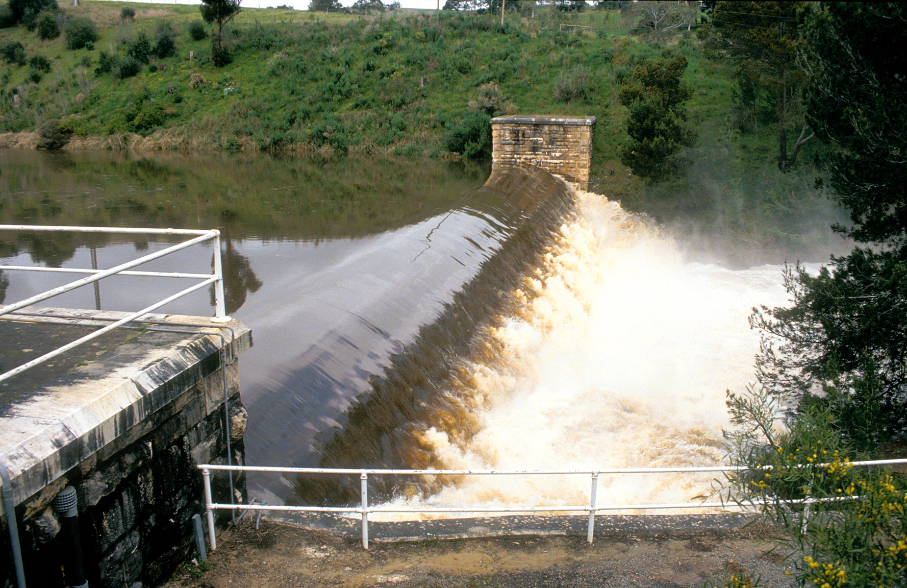 Flood waters surge over the Clarendon Weir in the Adelaide Hills, South Australia. 1992.